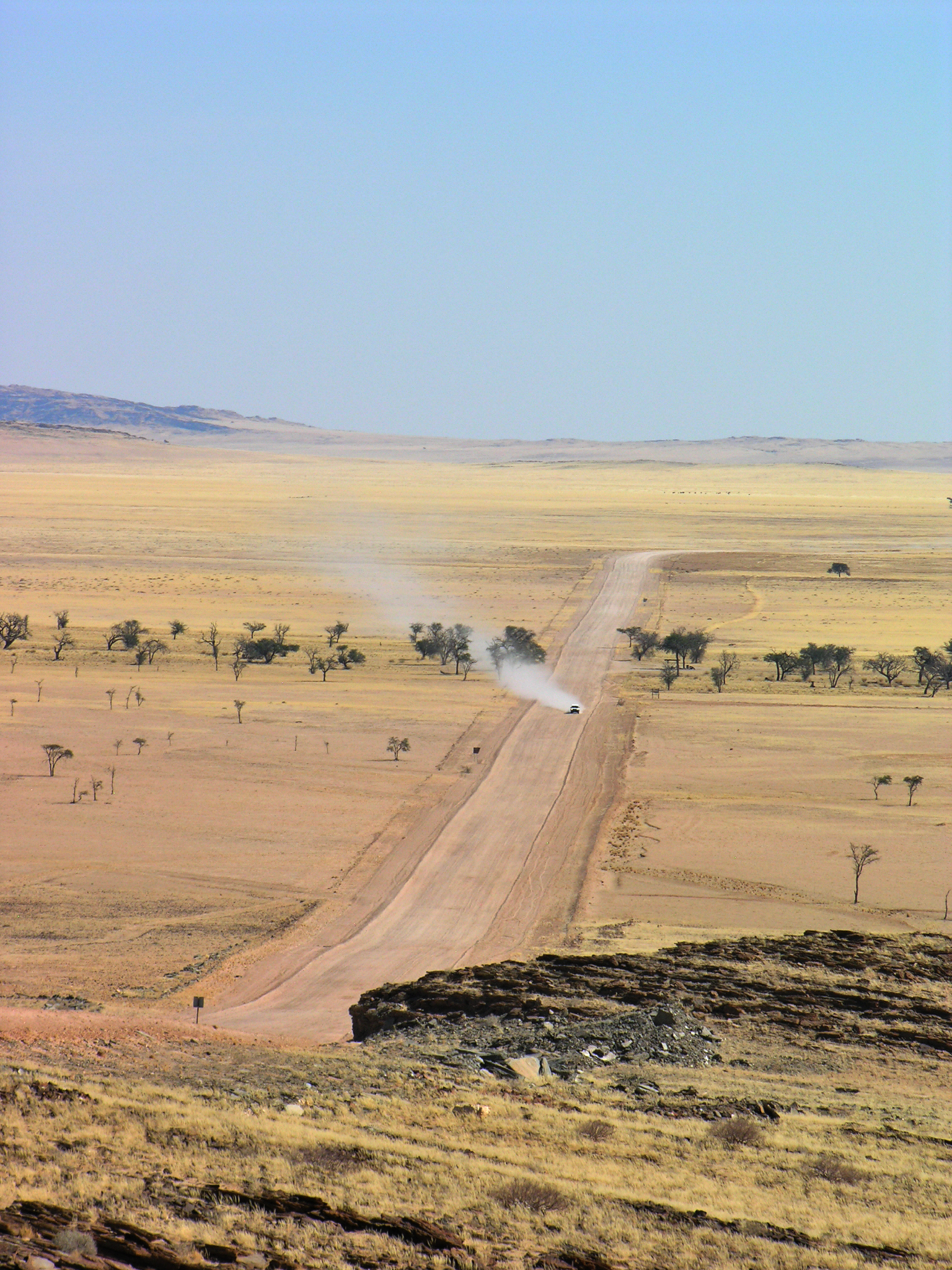 Namibia, impressions along road C14